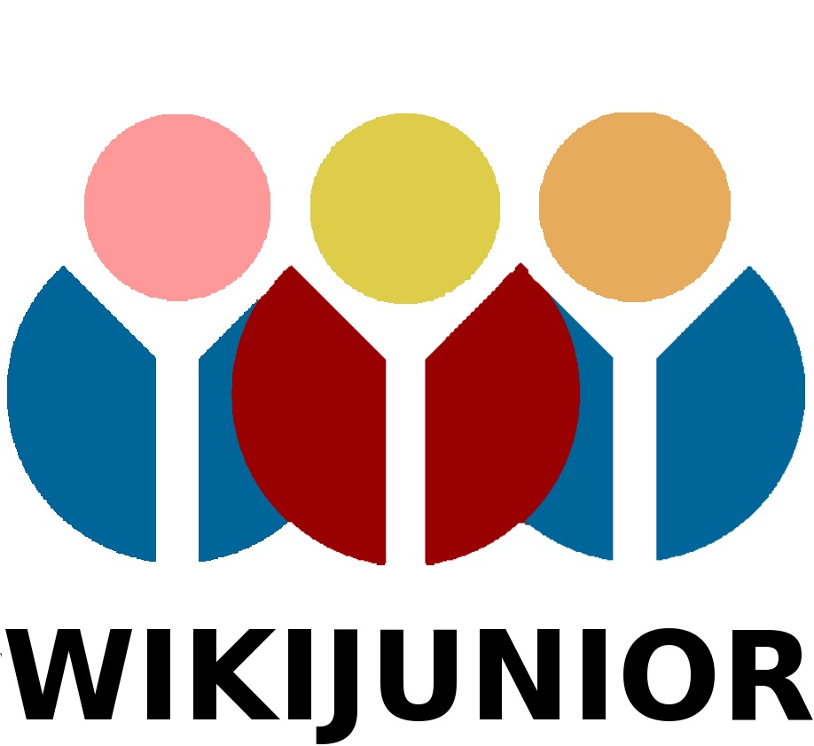 Proposed Logo for Wikijunior